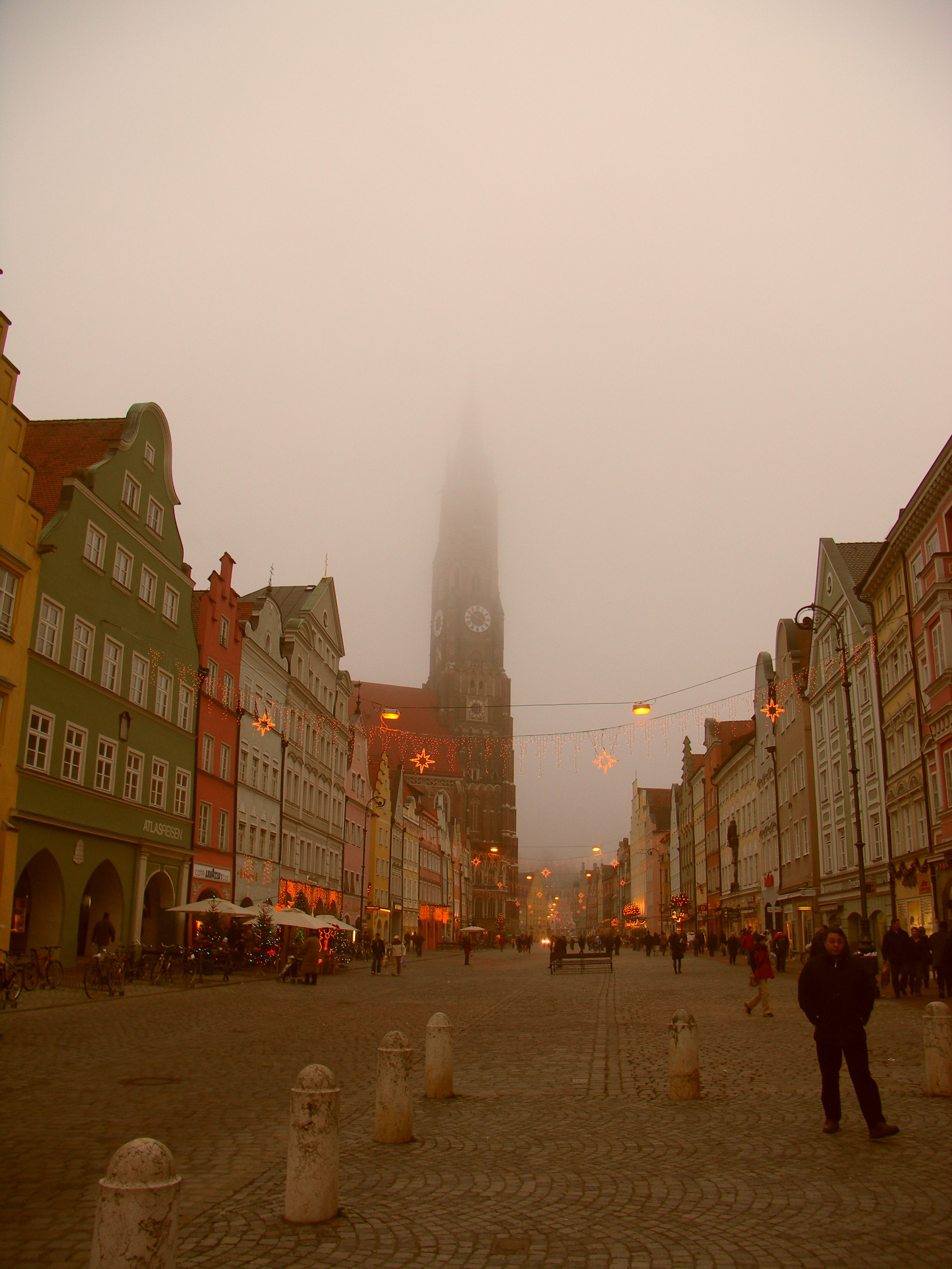 Landshut (Germany) The Altstadt during Christmas time